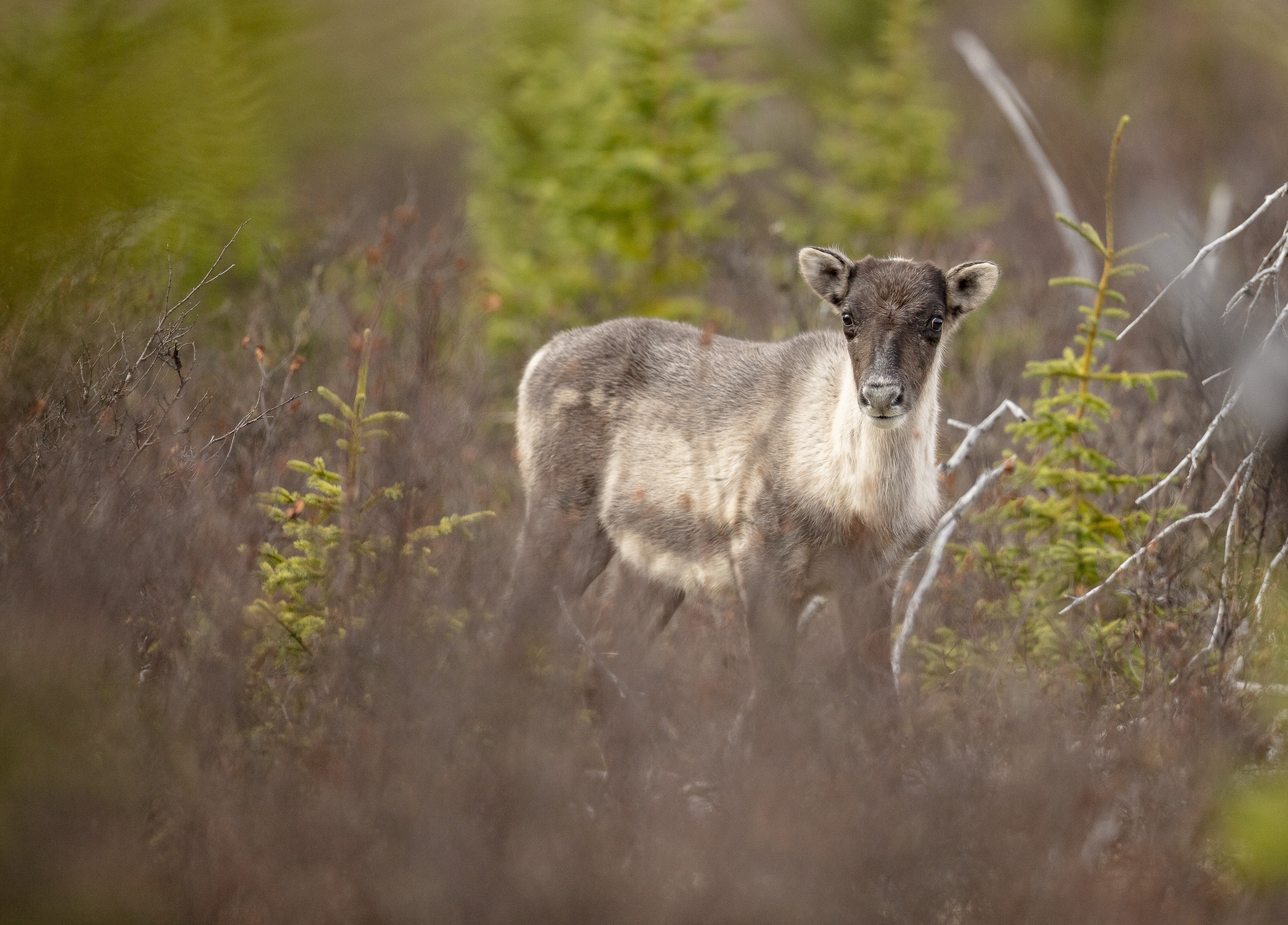 Caribou forestier